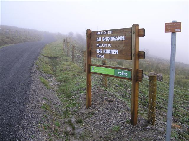 Entrance, The Burren Looking north-east